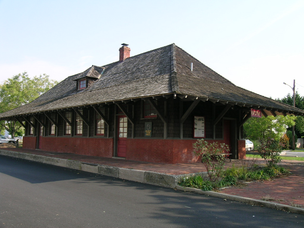 An image of the railroad station in Easton.